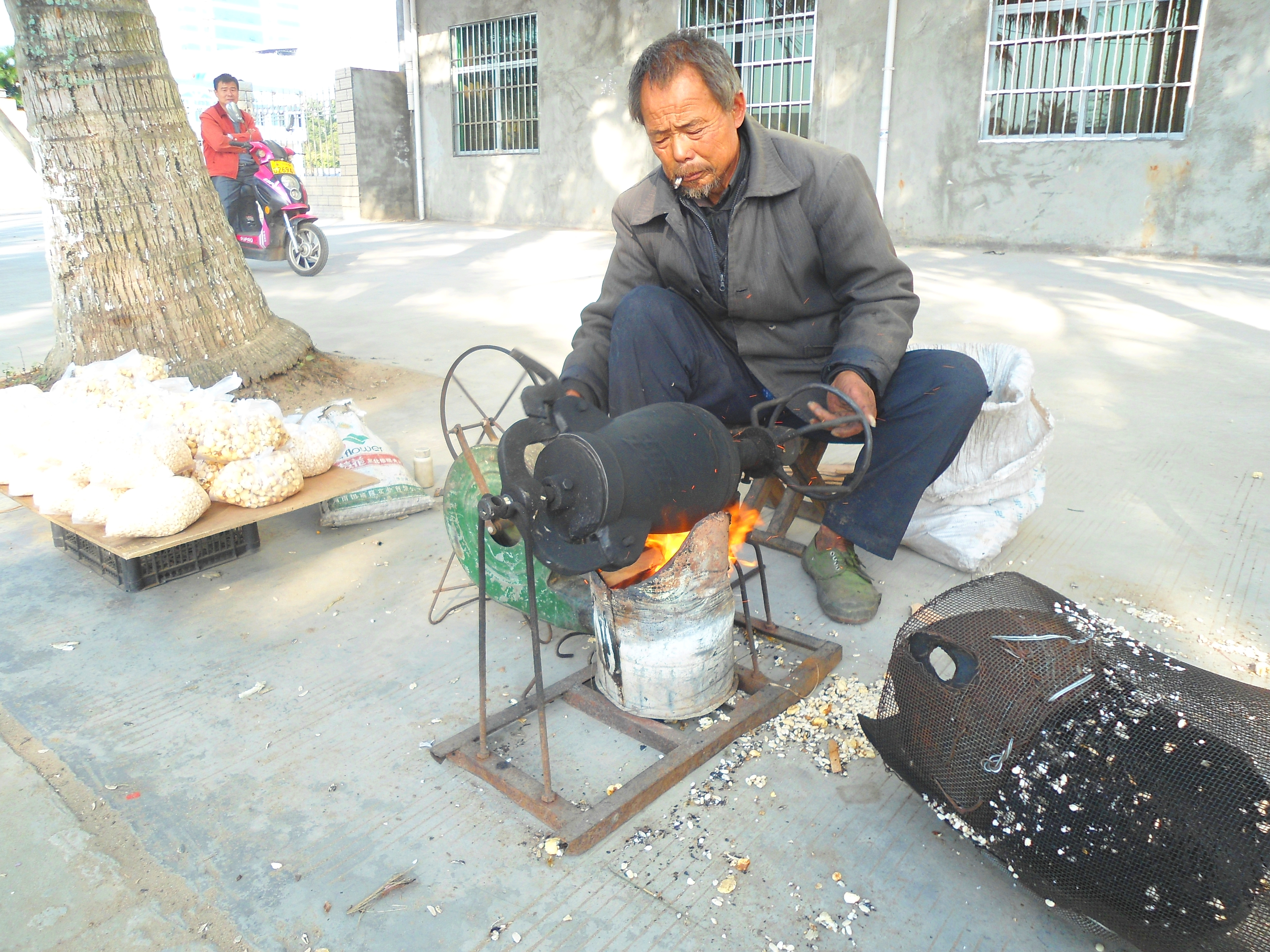 Puffed grain machine in Haikou, Hainan, China.